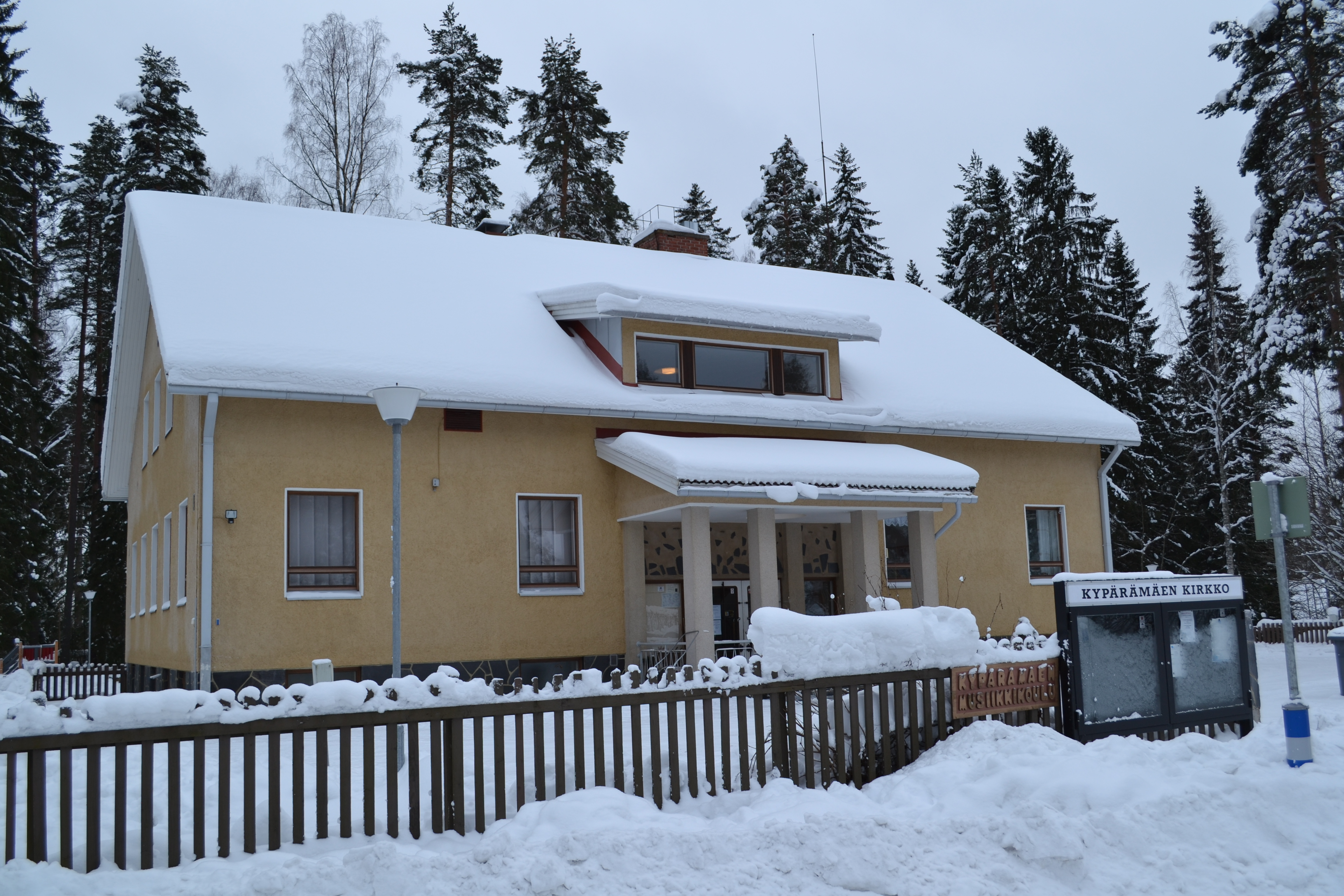 The church of Kypärämäki in Jyväskylä, Finland